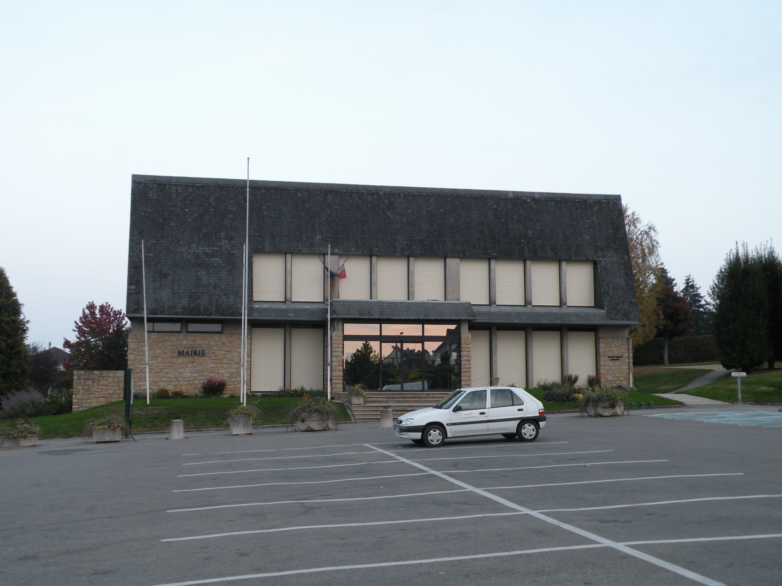 Town hall of Saint-Berthevin.